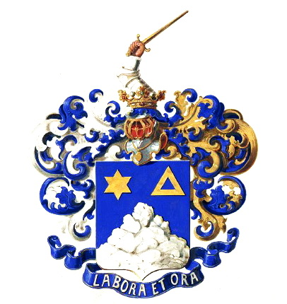 Coat of arms of the family Unterberger